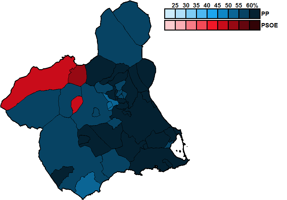 Most-voted party in Murcia municipalities, showing vote share obtained, in the Spanish general election, 2008.